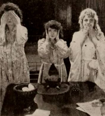 Still from the American romantic comedy film Girls (1919) with Helene Chadwick, Marguerite Clark, and Mary Warren, on page 40 of the June 28, 1919 Exhibitors Herald. Some ads for the film used a variant of this image and the tag line "See No Man, Listen to No Man, Kiss No Man."